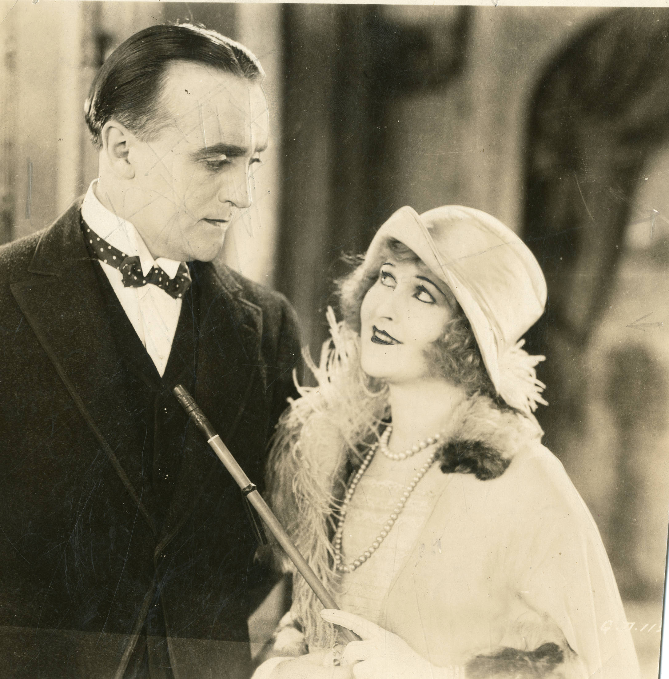 Still from the American comedy film The Gold Diggers (1923). Subjects: motion pictures, actresses, actors